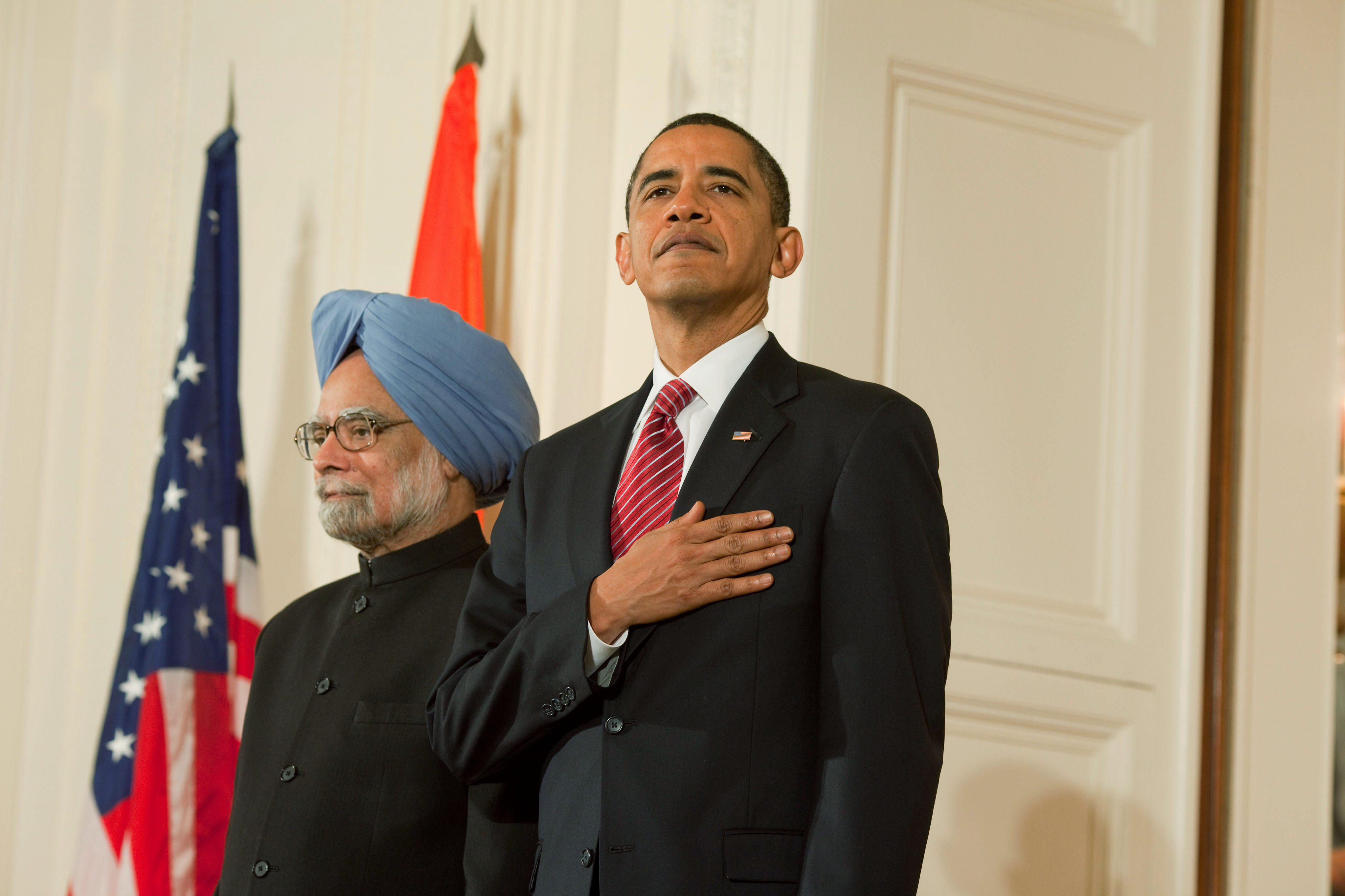 President Barack Obama and Prime Minister Manmohan Singh of India listen as the national anthem is played during the State Arrival ceremony in the East Room of the White House, Nov. 24, 2009.